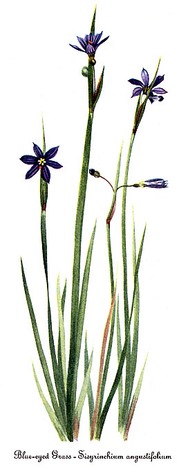 Watercolor painting of Sisyrinchium_angustifolium.